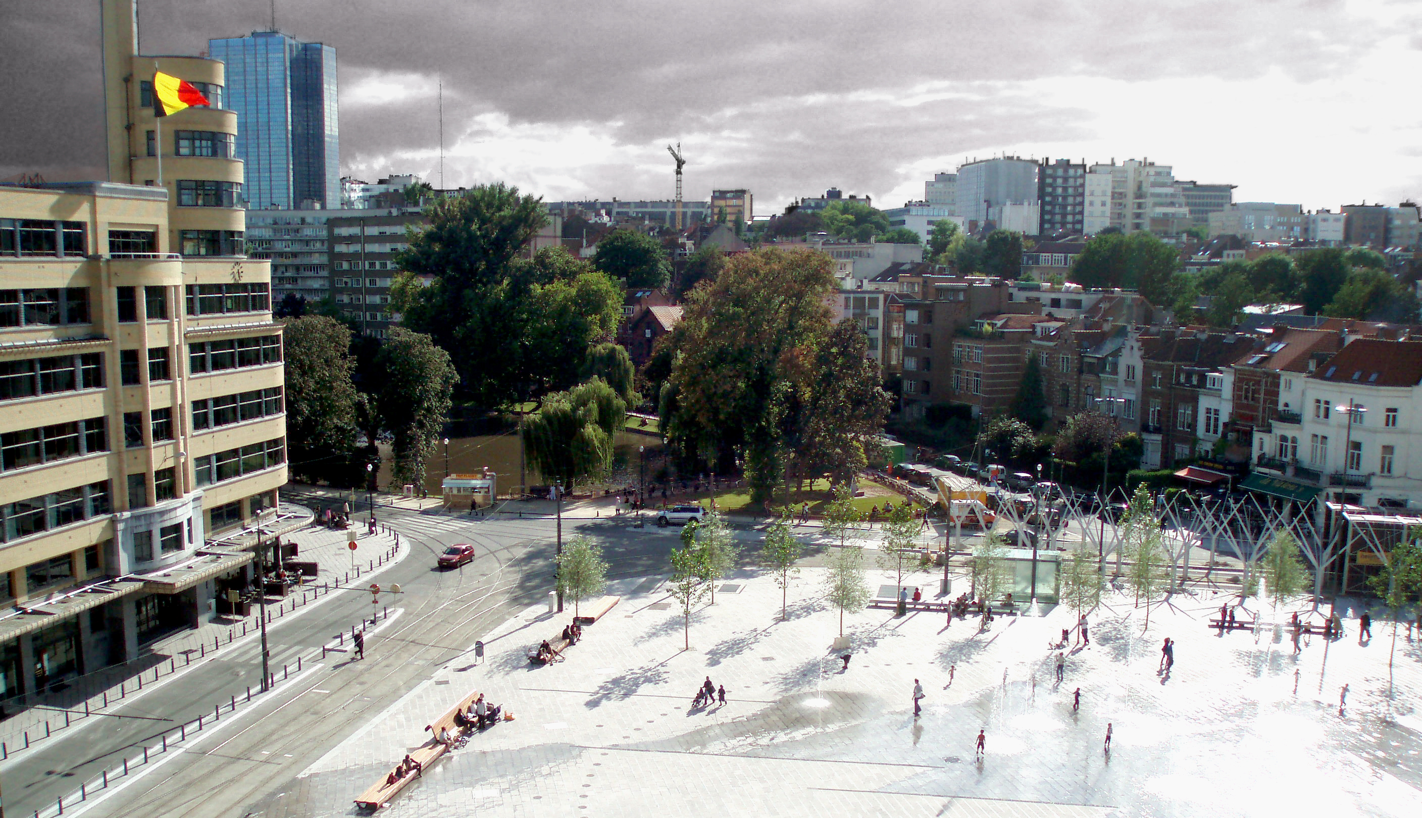 Landscape place Flagey